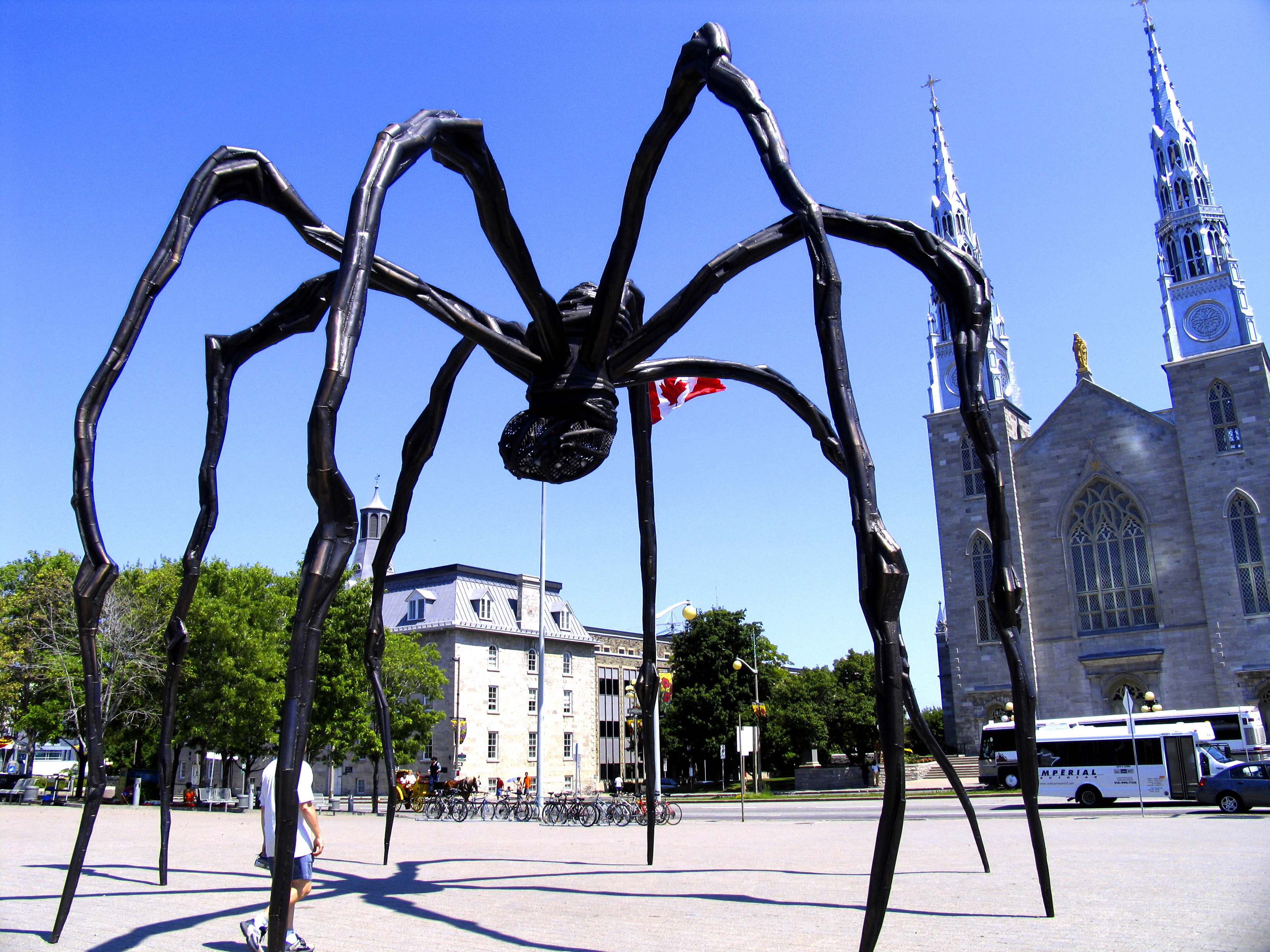 Maman near the Notre-Dame Cathedral Basilica. National Gallery of Canada Addendum: New Stereo version of 'Maman' in gory 3D! Alternative Humor: Even spiders go to church!